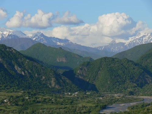 my photoarchives